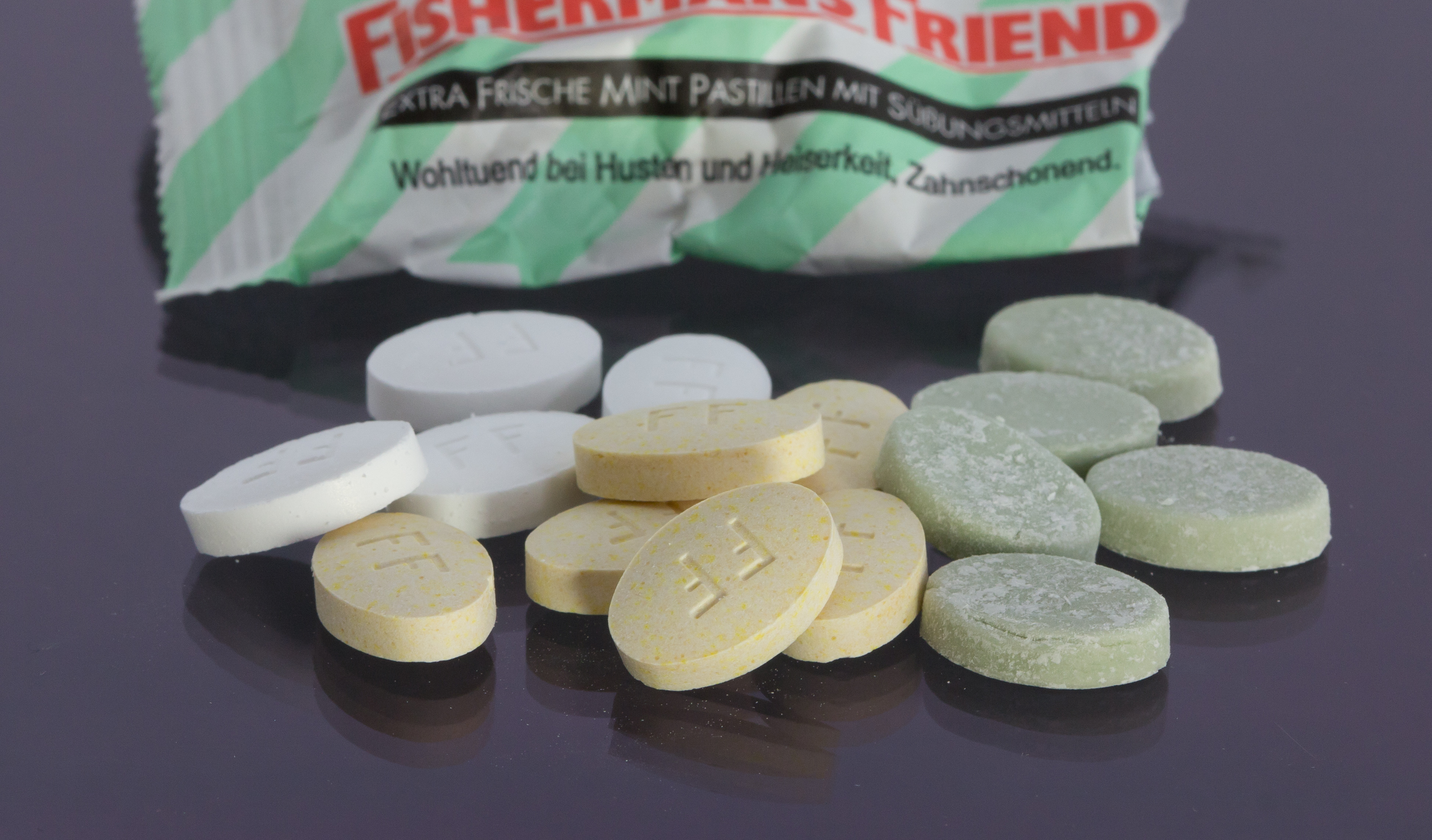 Fisherman's Friend assortiment